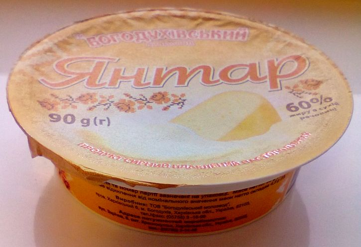 Bogodukhivsky Dairy, product of cheese fused pasty.